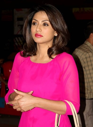 Sahana Bajracharya @ Model Event in Kathmandu,Nepal